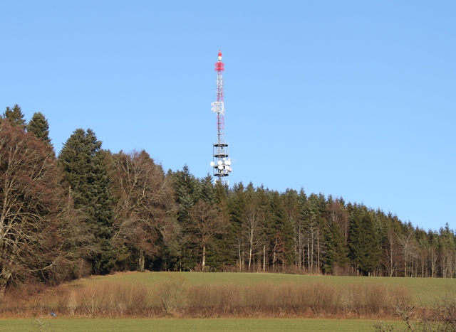 DAB DAB-T Sendeturm Geuensee Hochweidwald